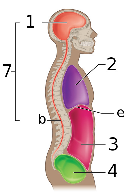 Caption:The ventral cavity includes the thoracic and abdominopelvic cavities and their subdivisions. The dorsal cavity includes the cranial and spinal cavities. 1. Cranial cavity 2. Thoracic cavity 3. Adbominal cavity 4. Pelvic cavity 5. Ventral body cavity (both thoricic cavity and abdominopelvic cavities) 6. Abdominopelvic cavity 7. Dorsal body cavity a. Superior mediastinum b. Vertebral cavity c. Pleural cavity d. Pericardial cavity within the mediastinum e. Diaphragm URL:htt URL: Other versions: En source Labeled entire image En source duplicate Frontal view only labels Frontal view only — en Lateral view only — en Lateral view only — labels